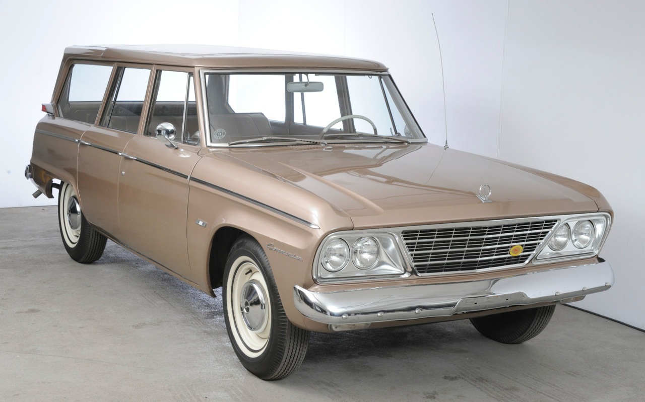 The Studebaker Lark Wagonaire front